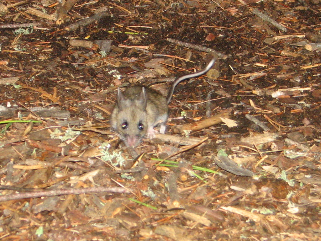 White-footed Mouse (Peromyscus leucopus) at night in Quetico Park, Ontario